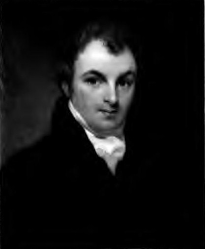 Portrait of Edward Smedley (1788–1836), English clergyman and writer.